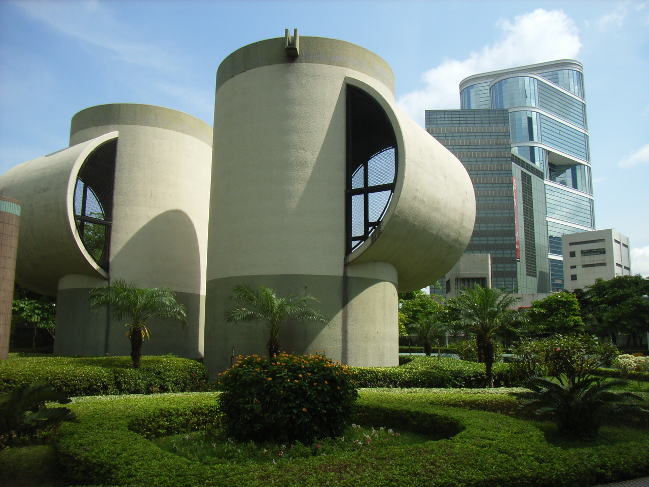 HK Harcourt Park, Queensway Bay Picture by QWB656